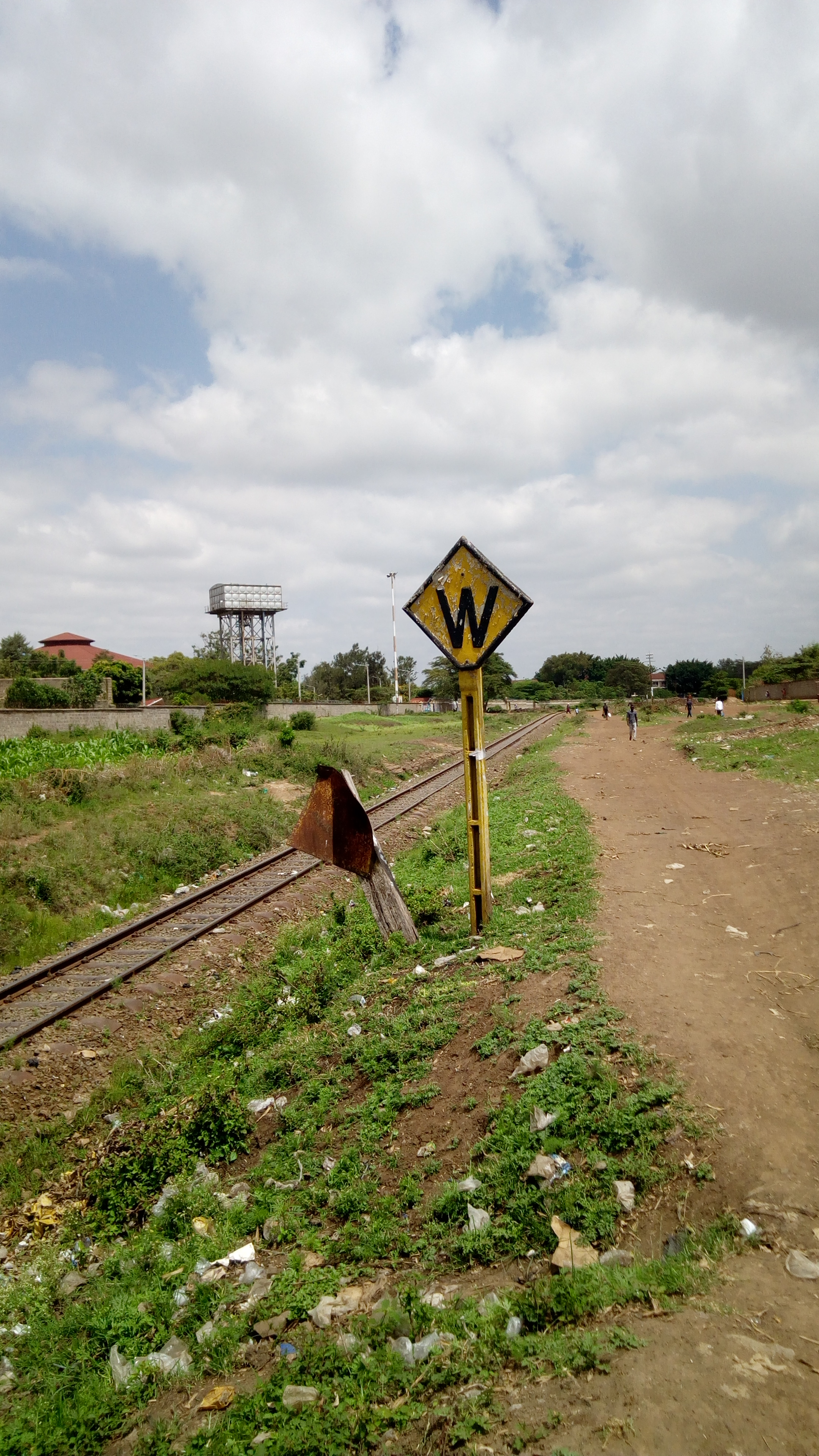 The Nairobi-Thika-Nanyuki railway line passes through Kenyatta University located 17km northeast of Nairobi. This is the section near the students hostels with a "W" sign requiring the train driver to whistle(blow the horn) when approaching as students may be crossing to the other side to attend lectures. This is an image with the theme "Africa on the Move or Transport" from: Kenya